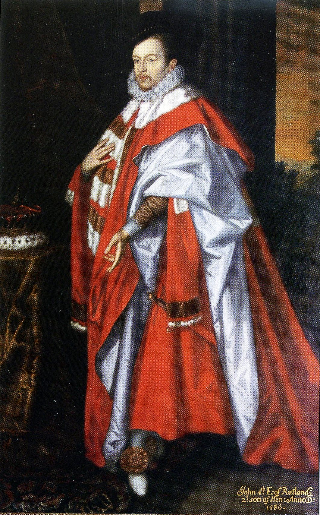 Imagined portrait, one of a series for Belvoir Castle of the first eight Earls, not from life (Oxford Dictionary of National Biography, article on Jeremiah van der Eyden).